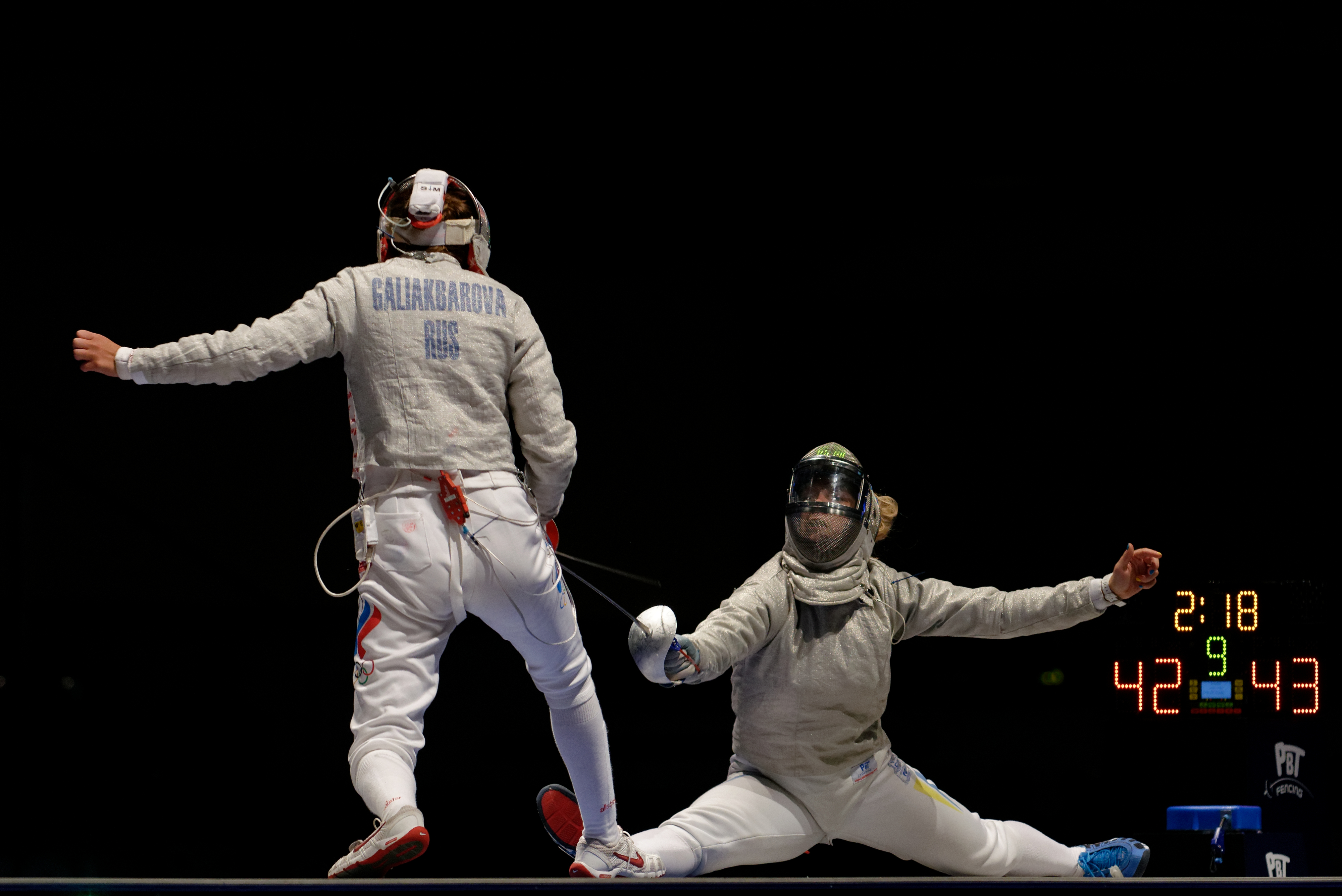 Olha Kharlan of Ukraine (R) drops into a full split during her relay against Russia's Dina Galiakbarova (L) in the women's team sabre final of the 2013 World Fencing Championships 2013 at Syma Hall in Budapest, 12 August 2013.